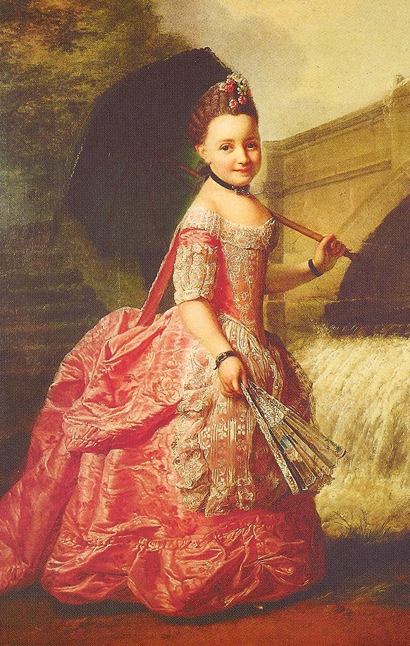 Portrait of Duchess Sophia Frederica of Mecklenburg-Schwerin (1758-1794) as a child